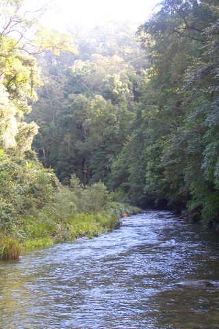 Wilson River, NSW taken from road bridge